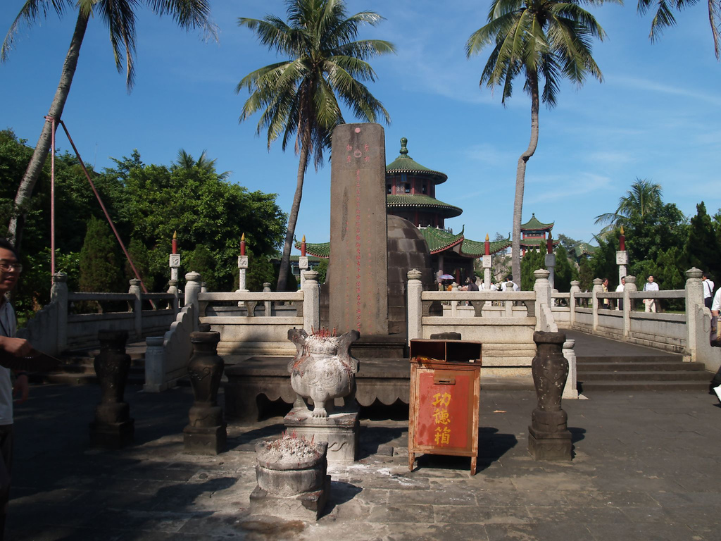 Tomb of Hai Rui, a principled Ming Dynasty bureaucrat. Haikou, Hainan province. Note the similarity of design to several round pavilions in Beijing's Temple of Heaven